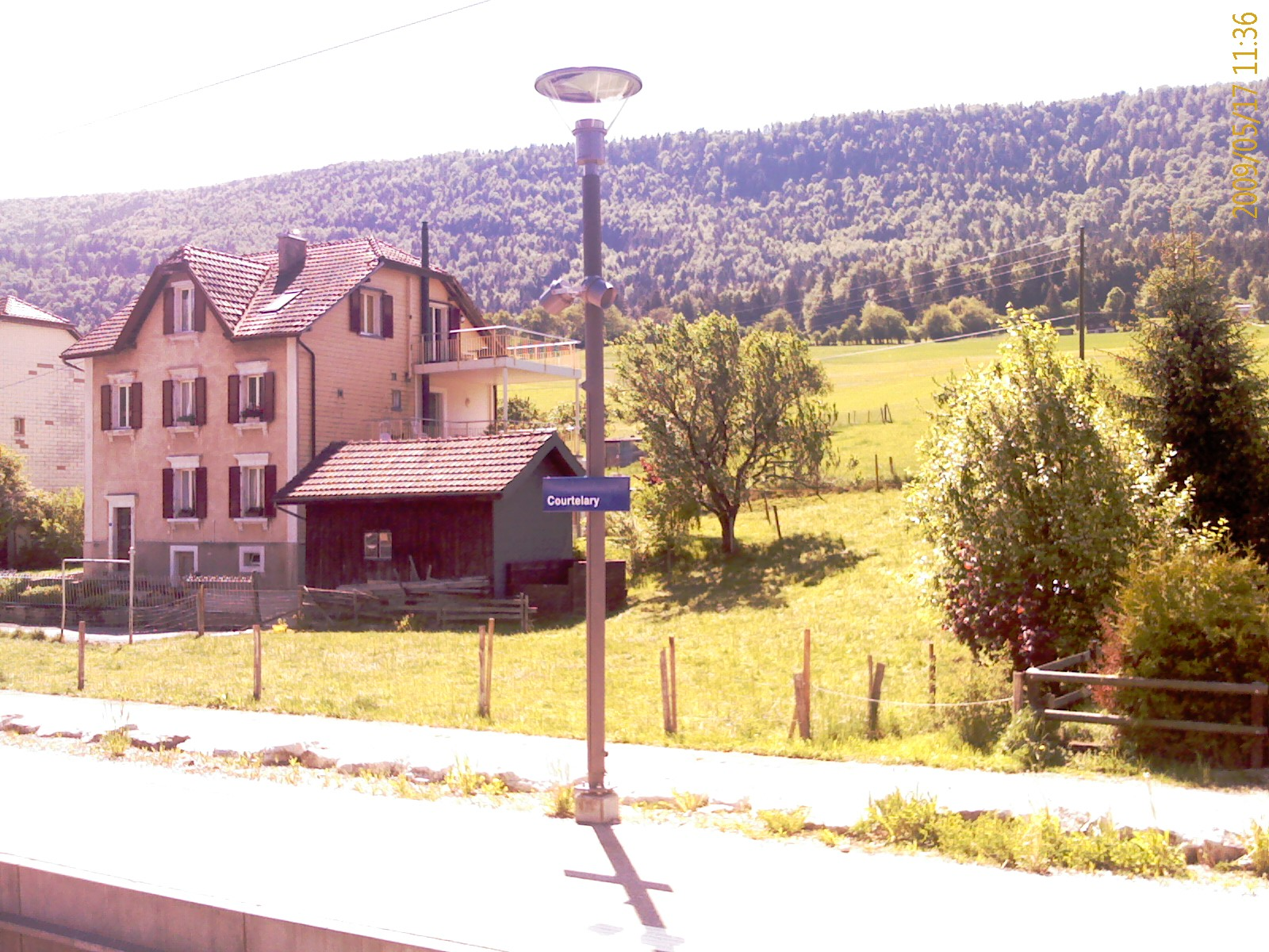 Trainstation of Courtelary, canton of Bern, SwitzerlandEsperanto: Stacidomo de Courtelary, Kantono Berno, Svislando